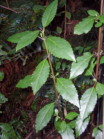 Hedycarya angustifolia at Pierces Pass, Blue_Mountains National Park